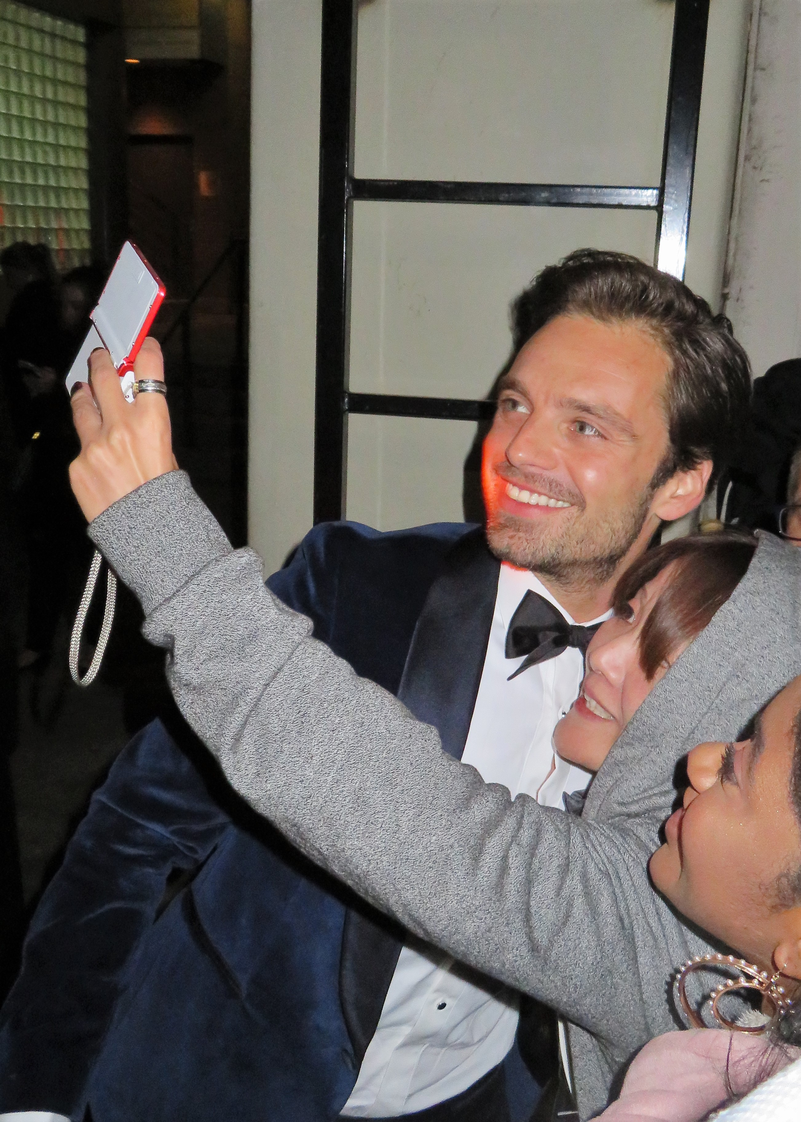 Sebastian Stan at the premiere of I Tonya, 2017 Toronto Film Festival